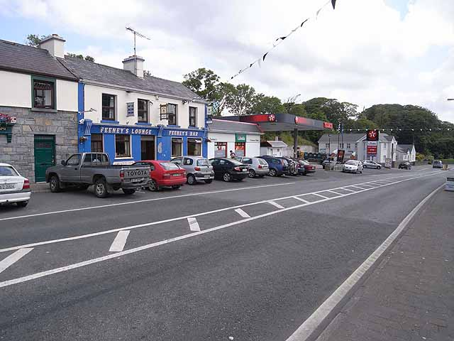 Dromore West Dromore West is the one settlement of any size on the N59 between Ballysadare and Ballina.